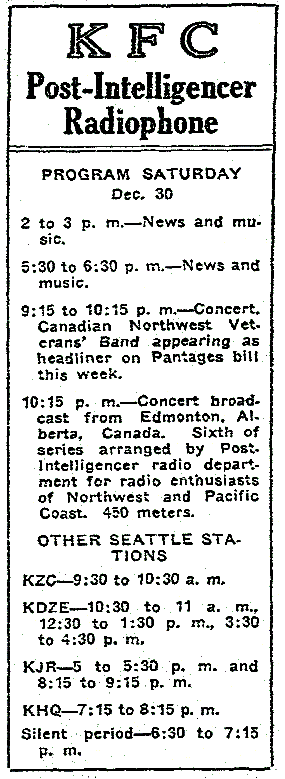 Final program listing for radio station KFC in Seattle, Washington. The station was formally cancelled the next month.